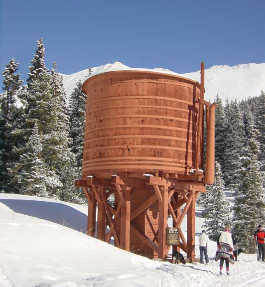 Bakers water tank along Boreas Pass road (old railroad grade), Summit Coonty, Colorado, USA